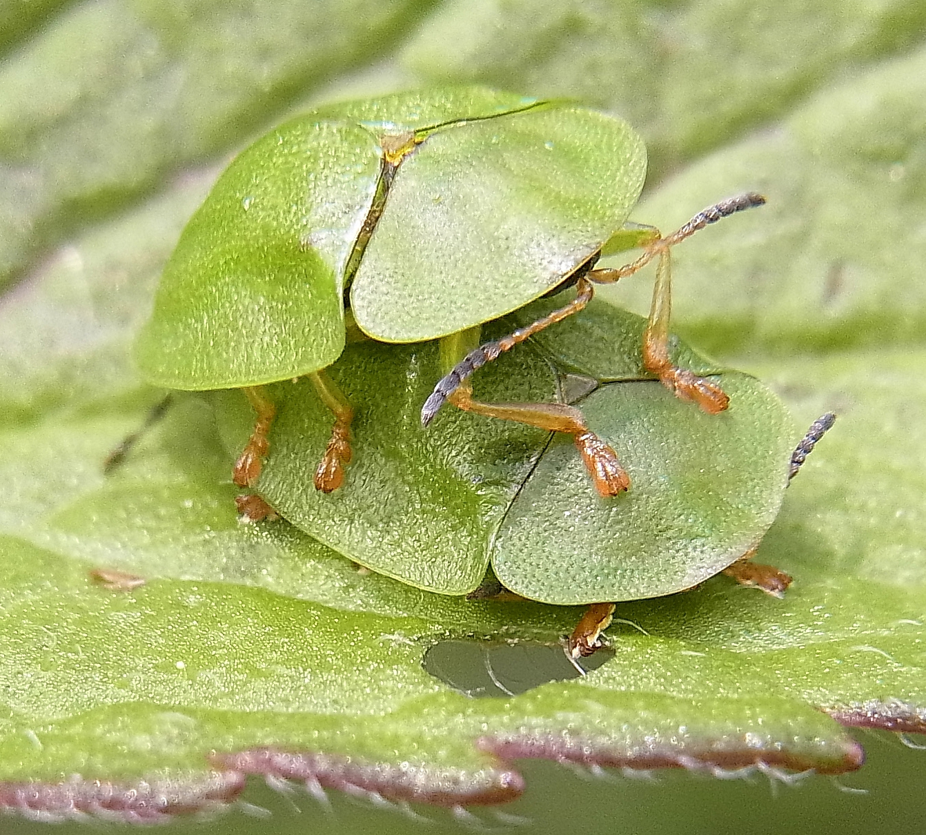 Cassida viridis from North-West-Hungary, Lipót at 2015-05-24